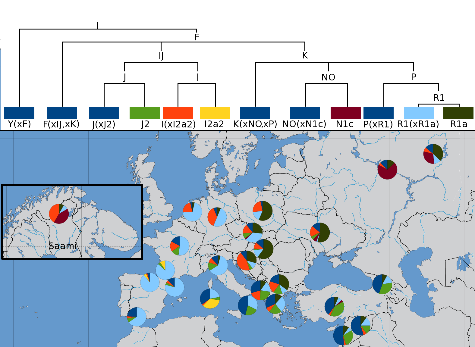 Distribution of Y chromosome haplotypes in Europe according to "The Genetic Legacy of Paleolithic Homo sapiens sapiens in Extant Europeans: A Y Chromosome Perspective" Semino et al. 2000. Science 290 pp 1155-1159.